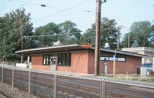 Odenton station in August 1995